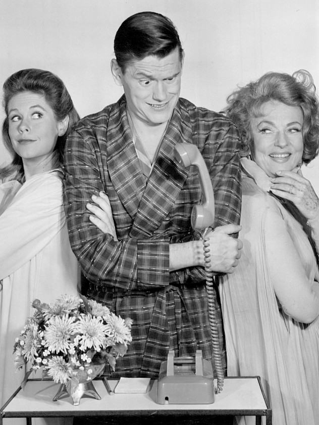 Cast photo from the premiere of the television series Bewitched. From left:Elizabeth Montgomery, Dick York, Agnes Moorehead.